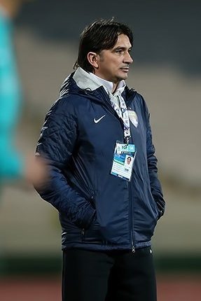 Zlatko Dalić coaching Al-Ain in match against Naft Tehran, 2015 AFC Asian Cup